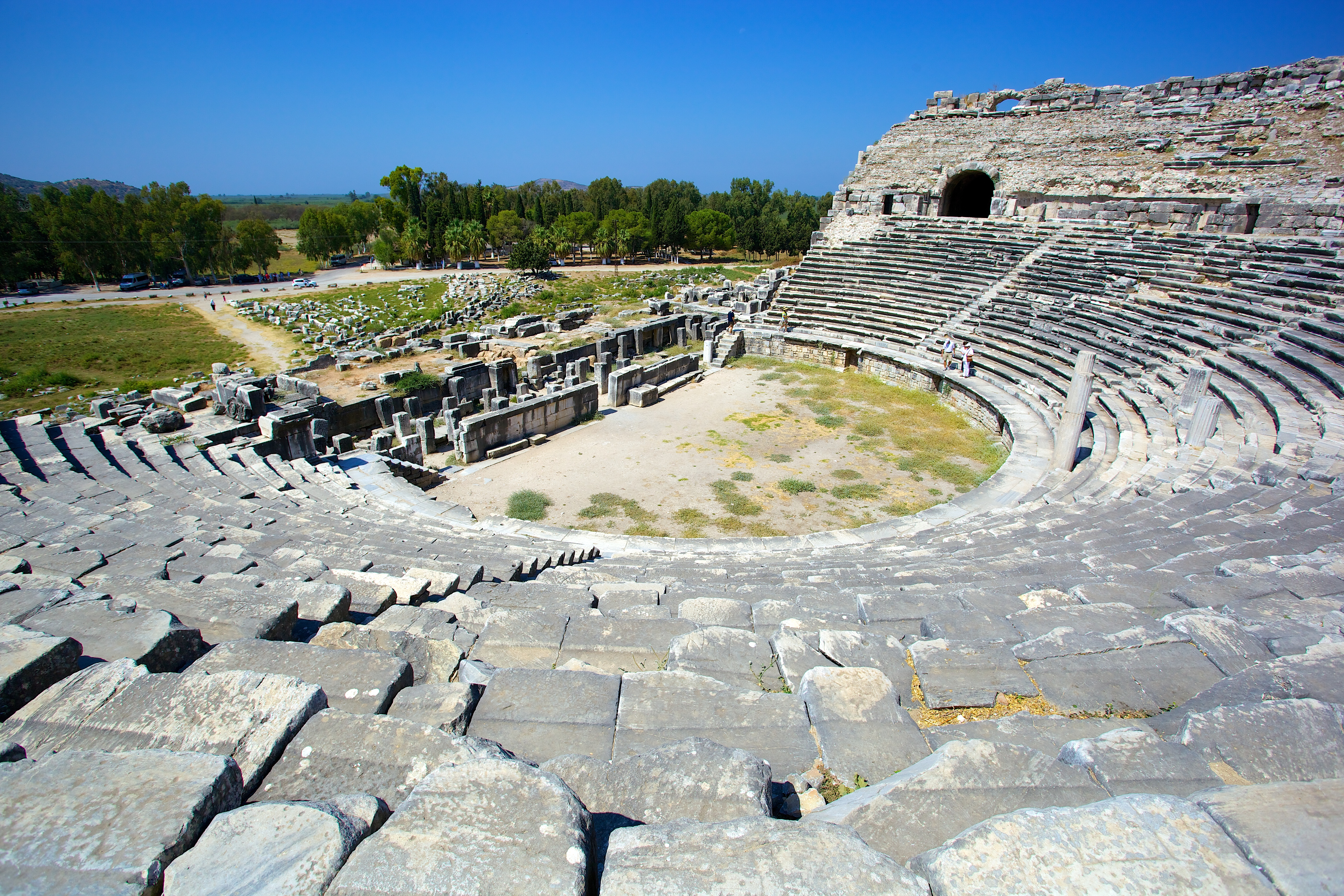 The Theater of Miletus in modern day Turkey.